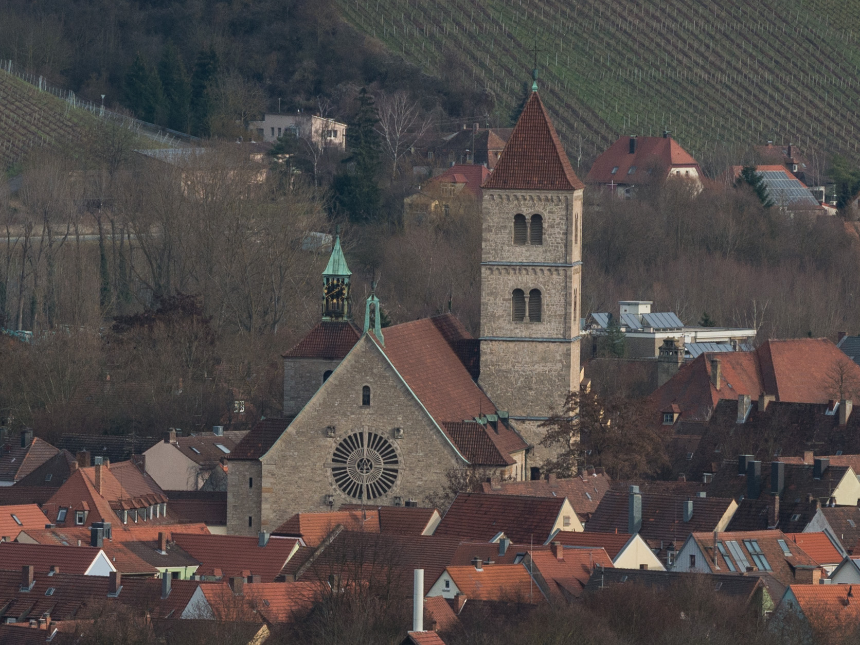 The church St. Laurentius in Heidingsfeld as seen from nearby hills